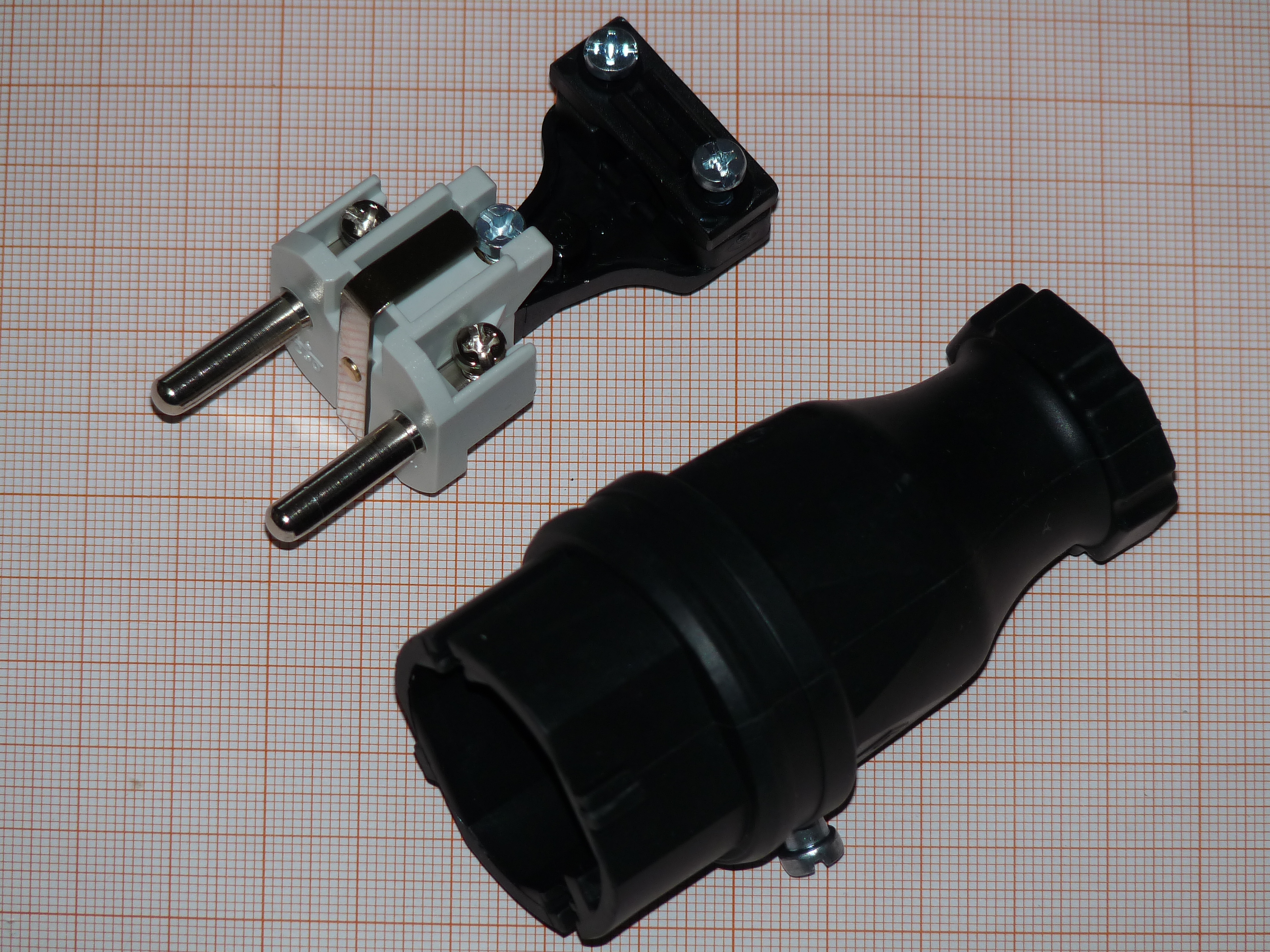 Schuko plug, IP44